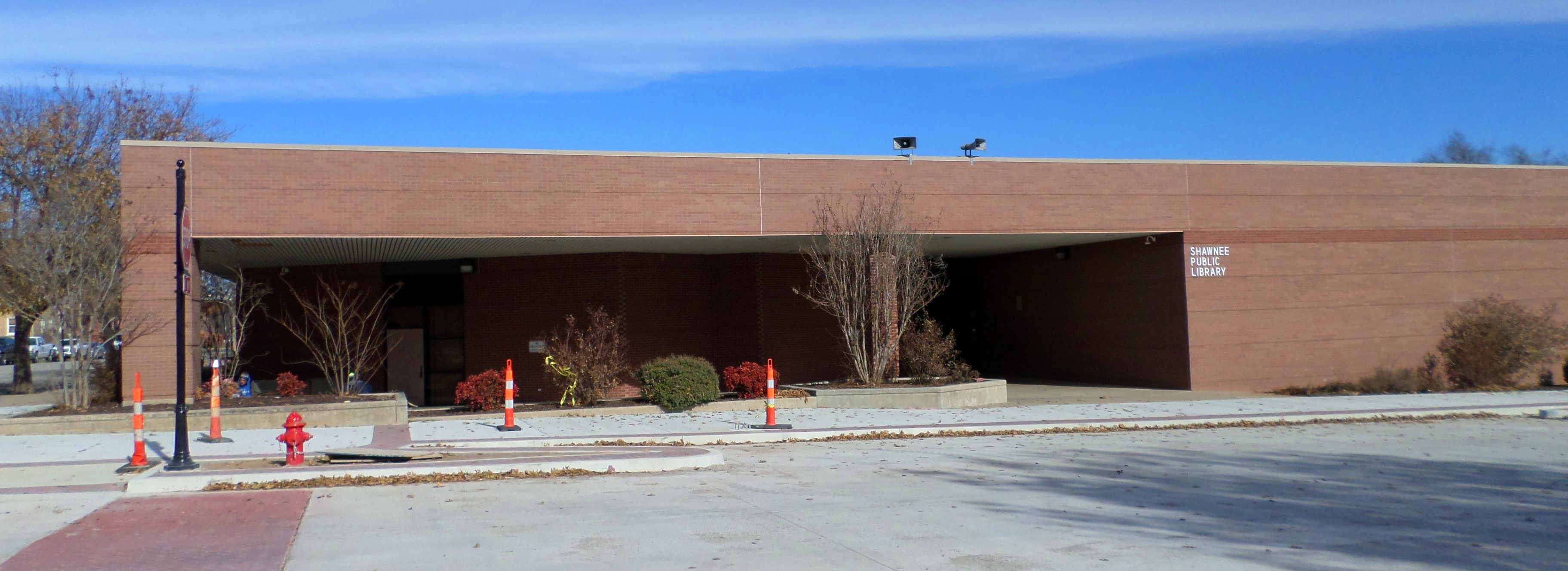 The Shawnee Public Library, located at 101 N Philadelphia Ave, Shawnee, OK.